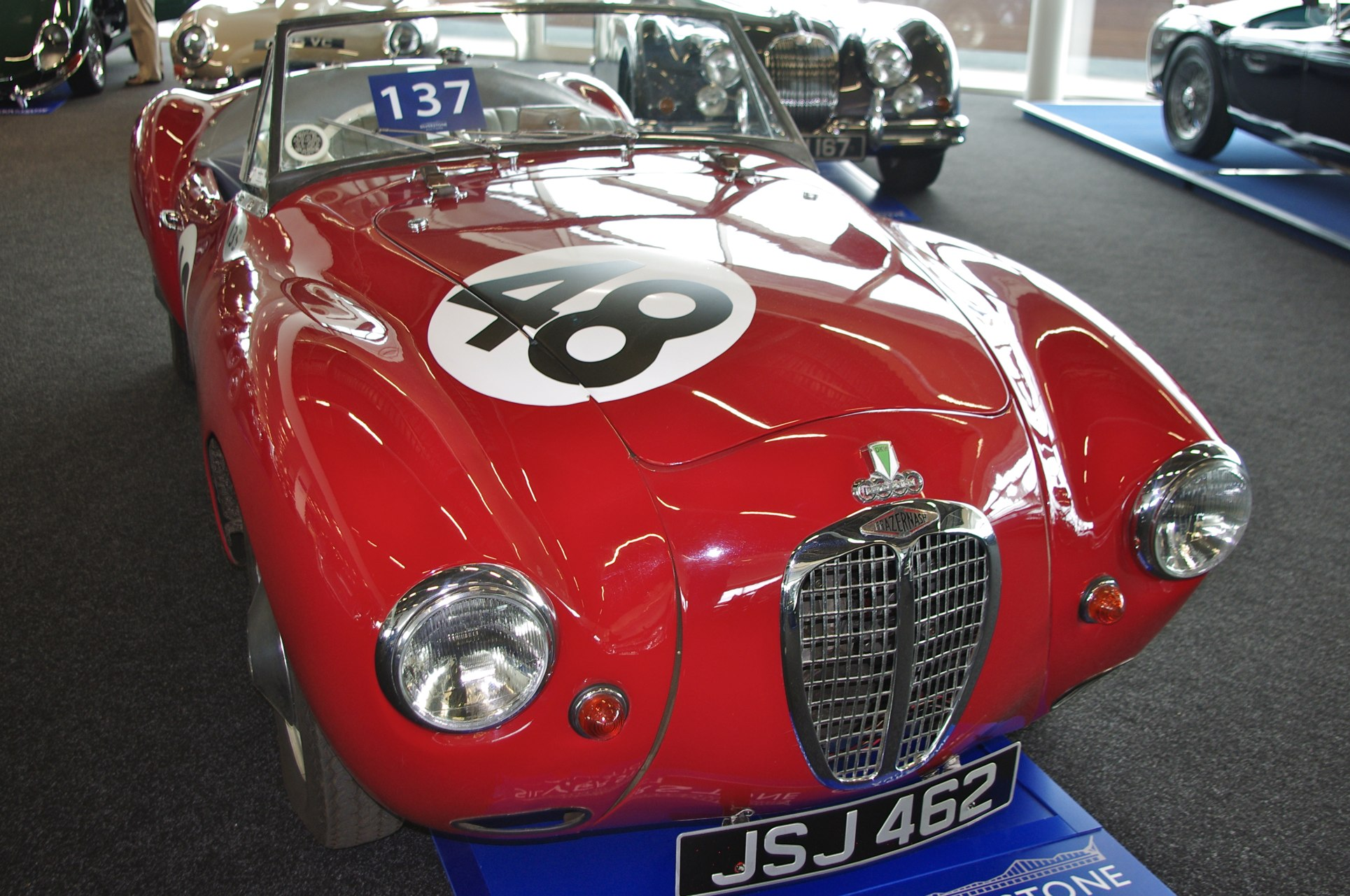 1955 Frazer Nash DKW prototype at Silverstone Classic 2011